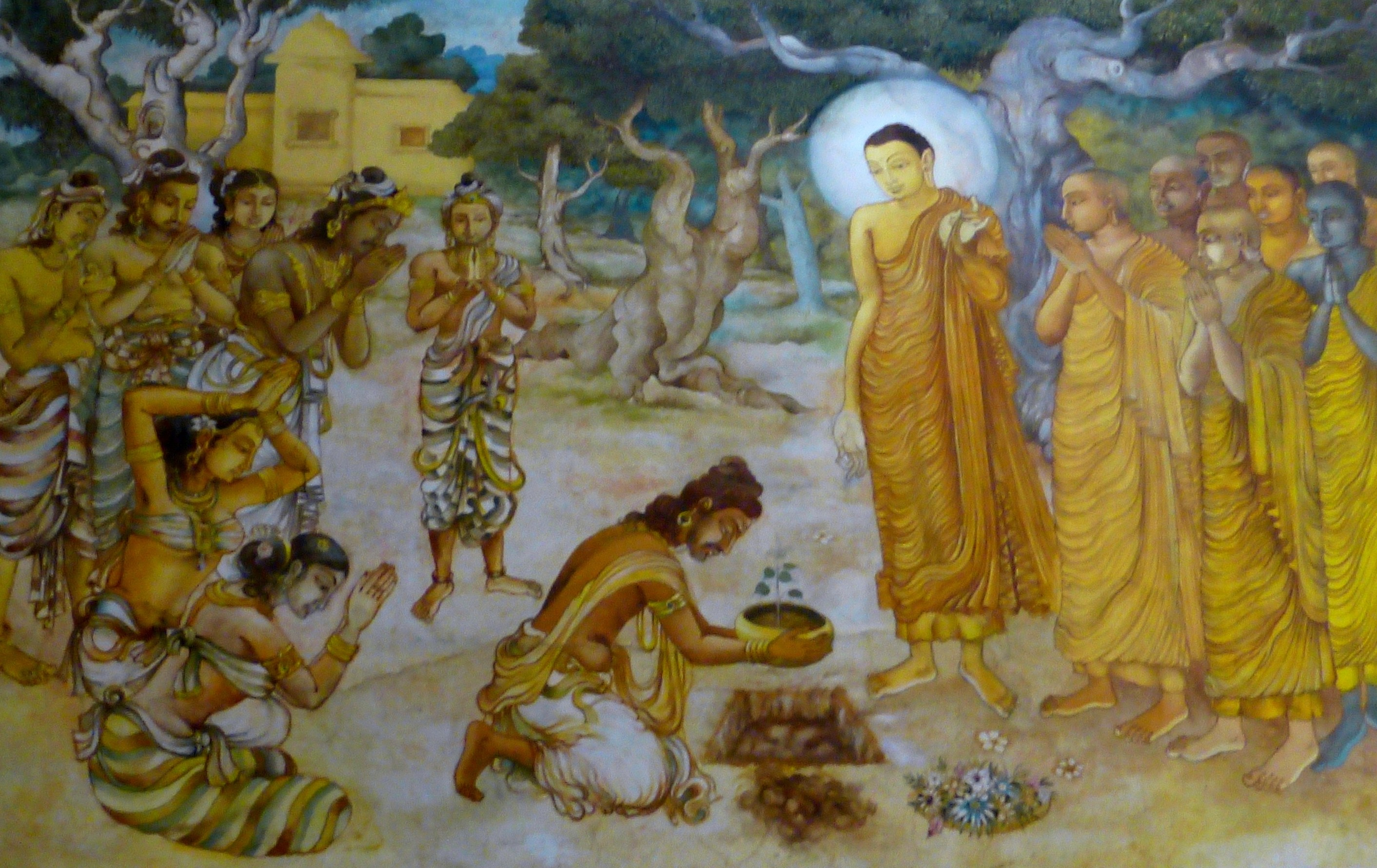 04 King Pasenadi Planting the Ananda Bodhi Tree in Jetavana, at the Nava Jetavana, Shravasti Photograph of murals in the Nava Jetavana temple, Jetavana Park, Shravasti, Uttar Pradesh, taken by Anandajoti.